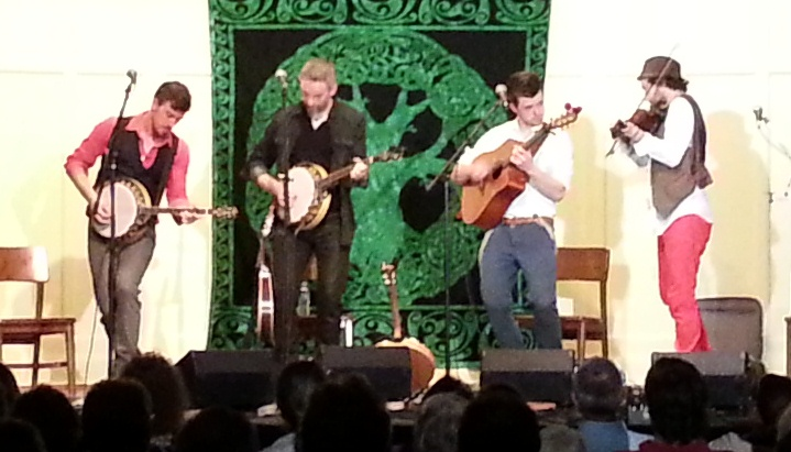 We Banjo 3 live in Cincinnati, September 7, 2013